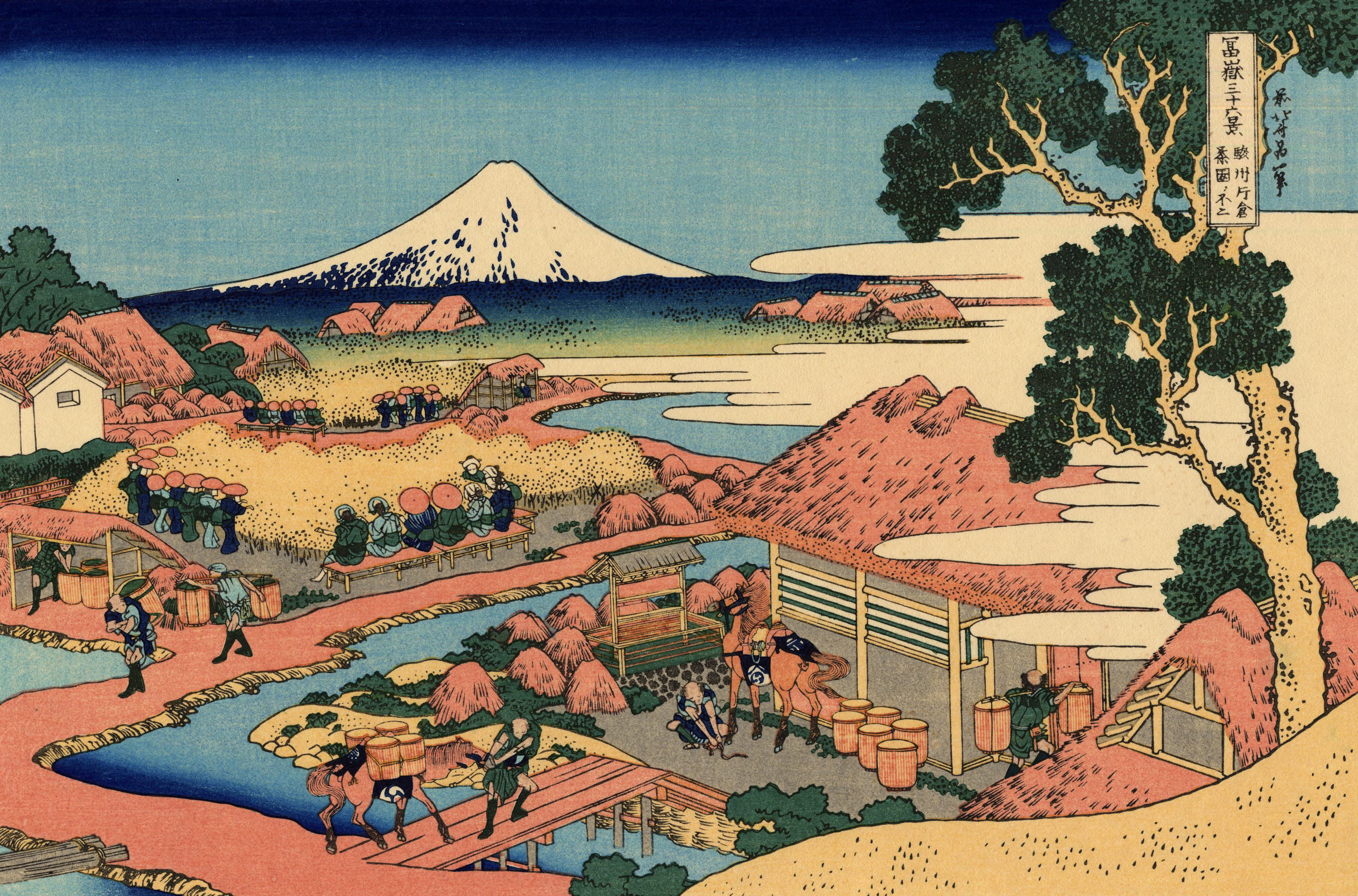 Part of the series Thirty-six Views of Mount Fuji, no. 30.